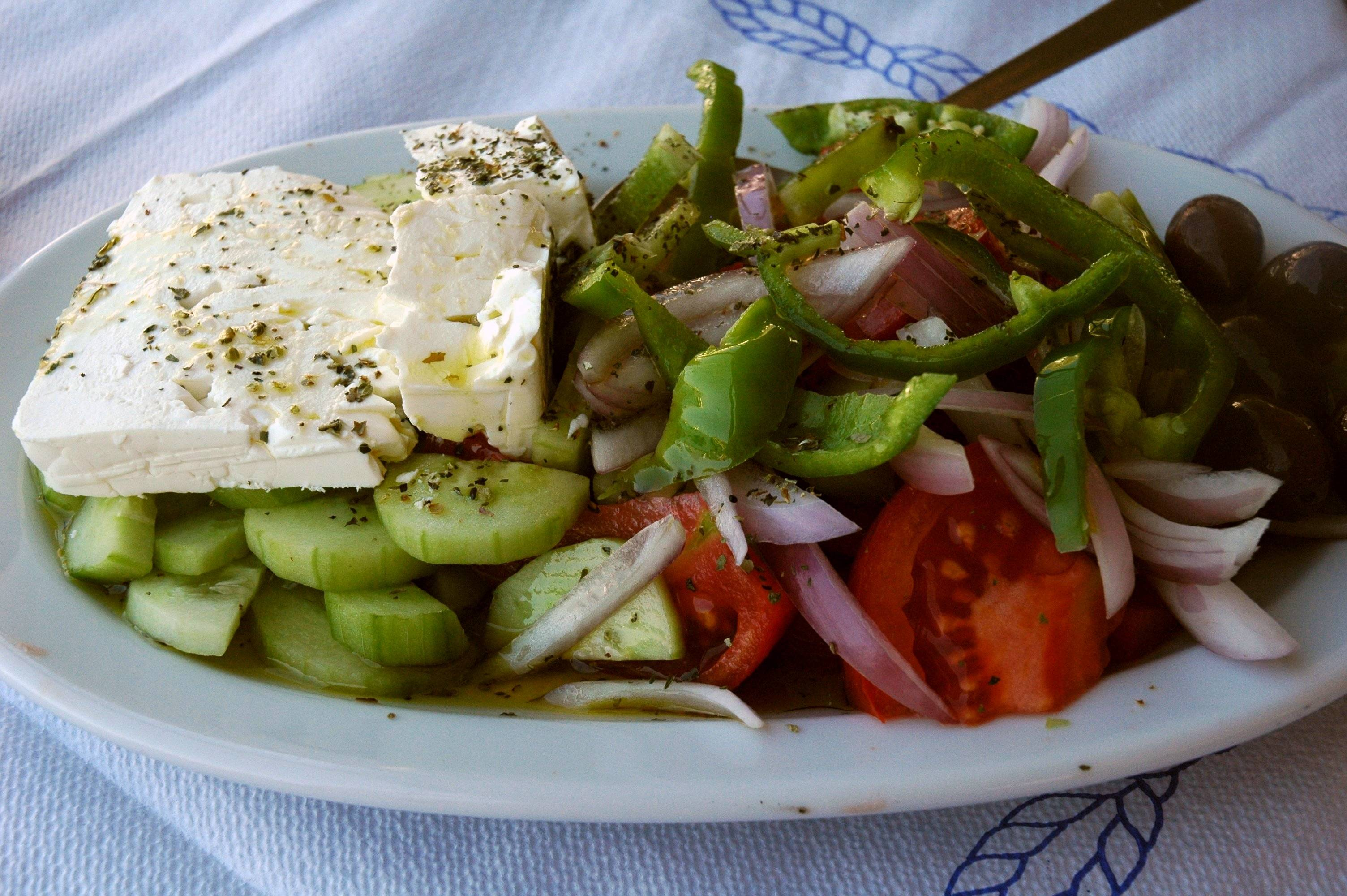 Greek salad (horiatiki salata). At Psaropoulo restaurant, Hydra, Hydra.